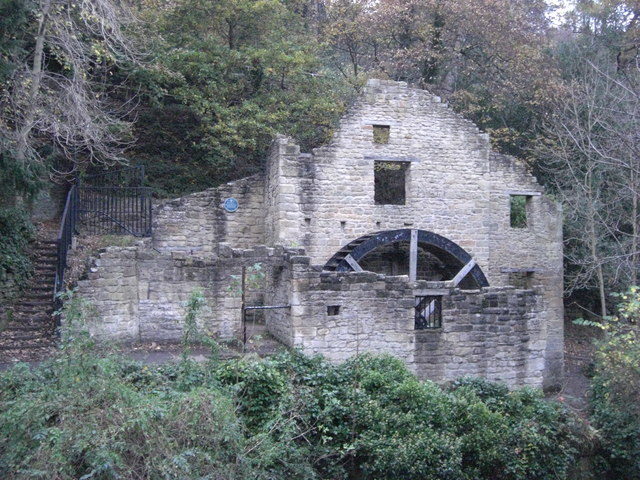 Jesmond Dene - The Old Mill One of many mills to have bordered the Ouse Burn, this one dates back to the 13th century. The mill was occupied for three or four generations by the Freeman family who used it as a flour mill; a man called Pigg who ground spoiled grain into pollards - a feed for pigs; then by a Mr Charlton who used the mill for grinding flint which was barrelled and carted to a pottery near the mouth of the Ouse Burn for use in the process of putting a glaze on finished pottery. The watermill was an overshot mill late in its life span and the last waterwheel was removed in 1978 for rebuilding and replacement. Information from